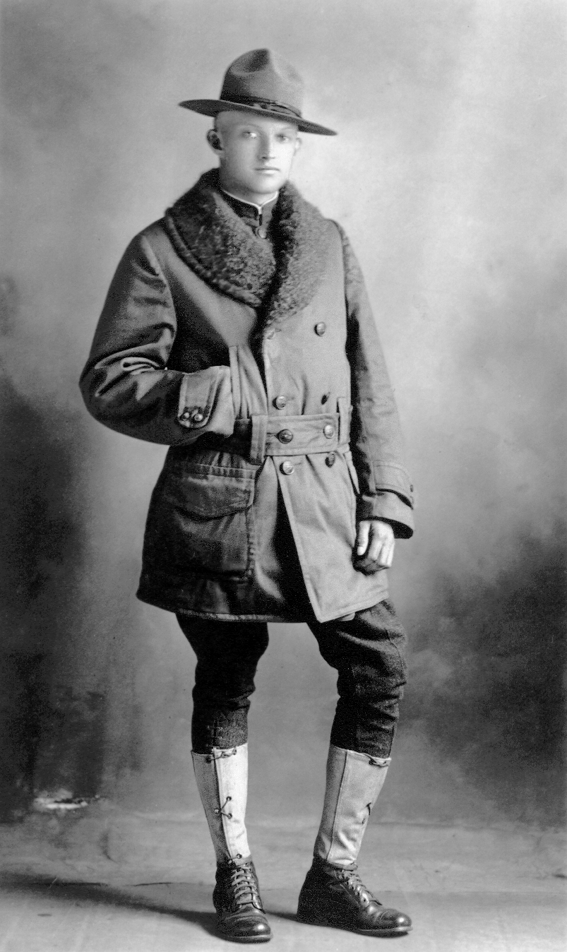 Portrait of Hugh A. Ball during his enlistment in the US Army as a WWI soldier.